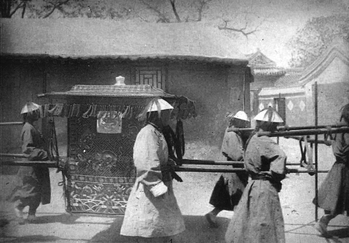 Image from La Chine à terre et en ballon.